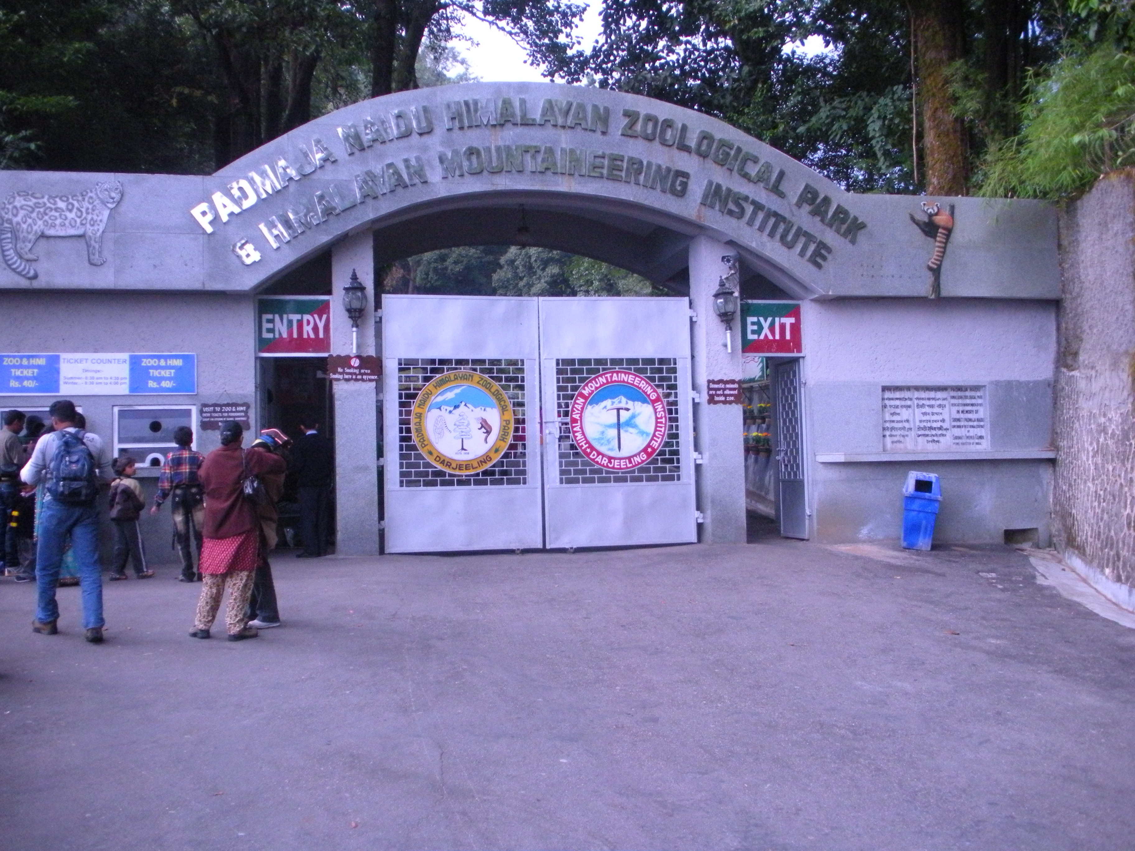 Padmaja Naidu Zoological Park and Himalayan Mountaineering Institute